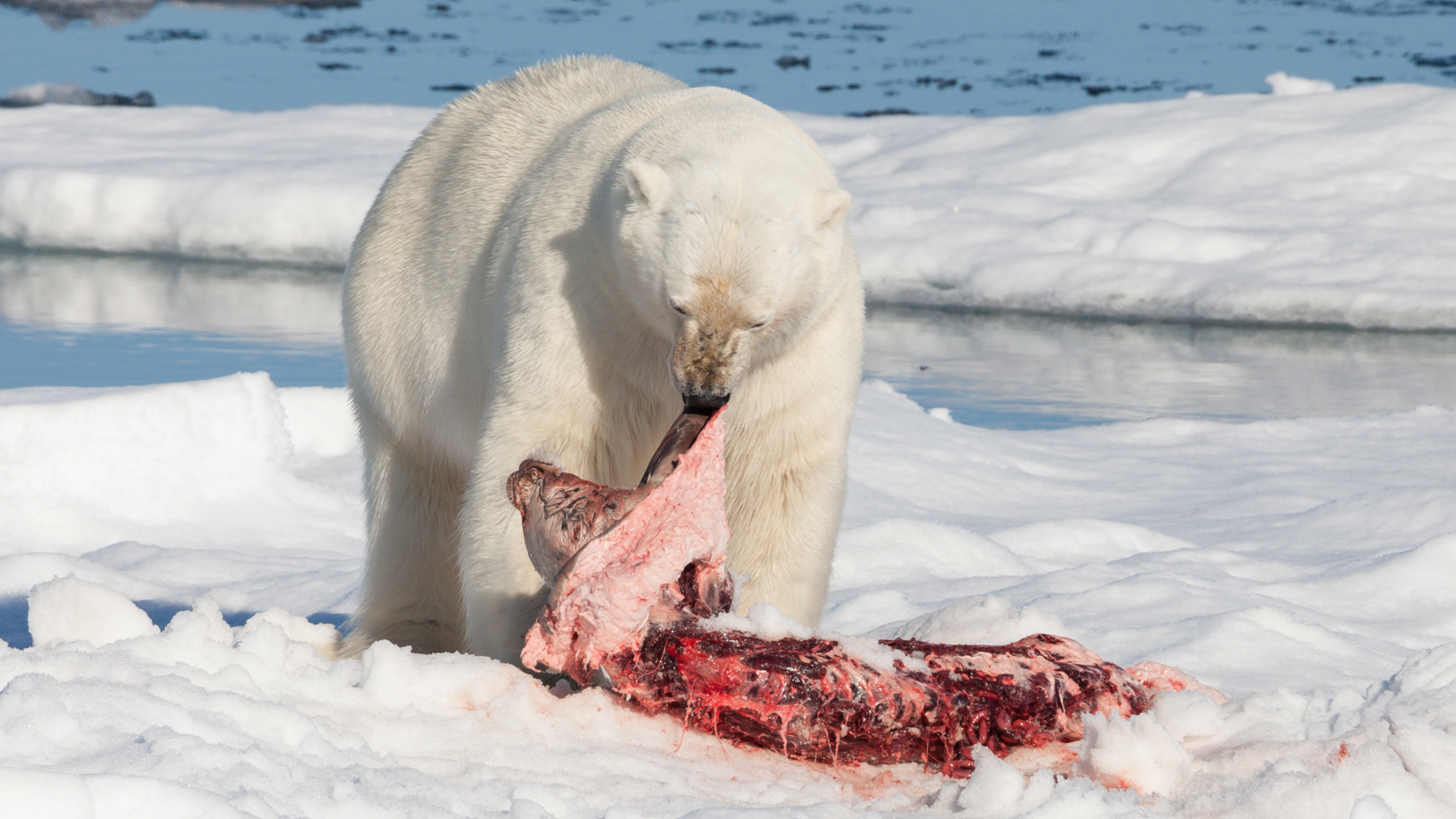 After successfully hunting a Bearded seal (Erignathus barbatus), a Polar bear (Ursus maritimus) starts feeding on his prey. He enjoys his meal on an ice floe north of Svalbard, Norway.